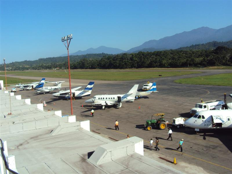 Golosón International Airport. La Ceiba, Atlántida department, Honduras.